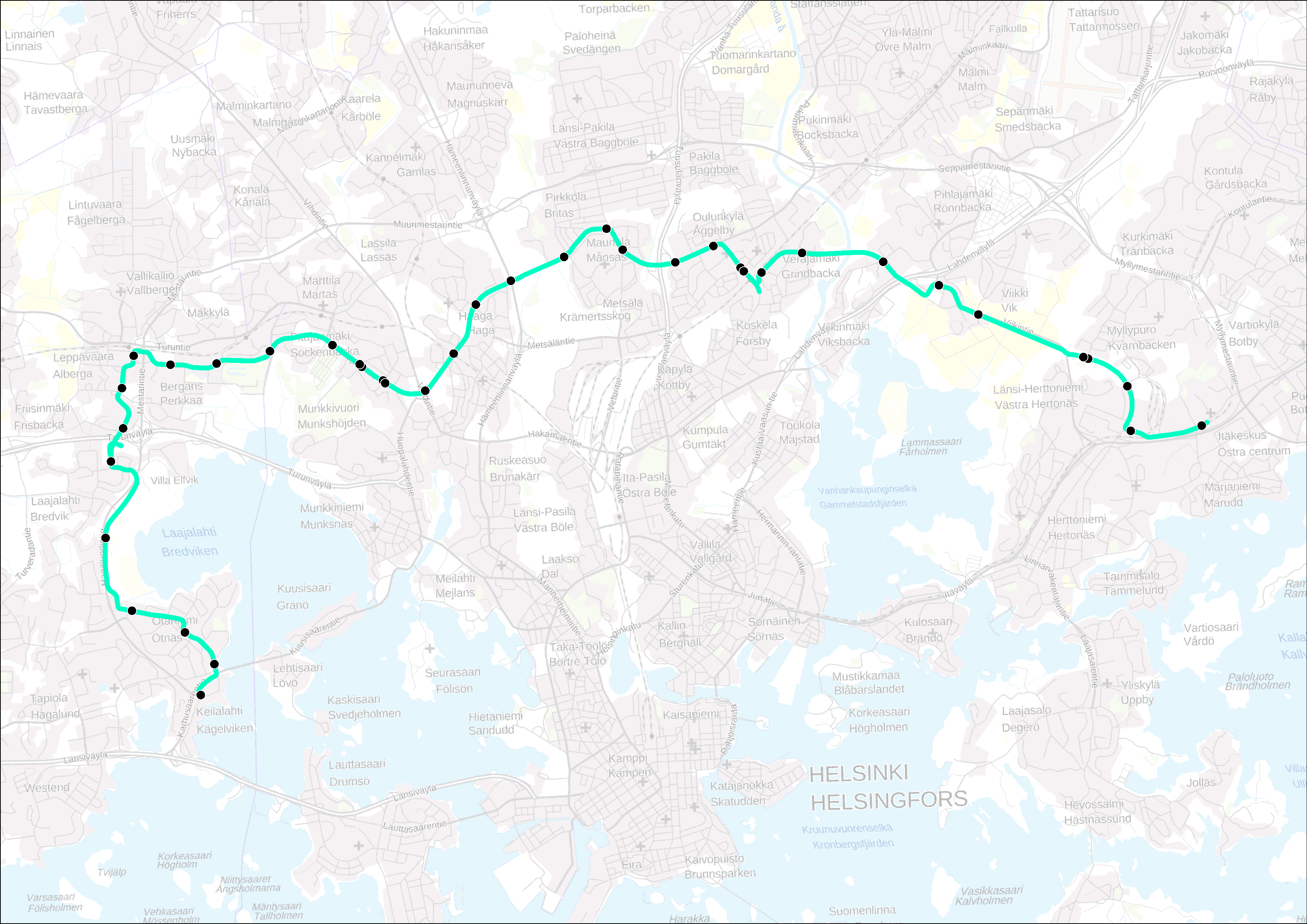 Route map of Raide-Jokeri light rail in Helsinki.